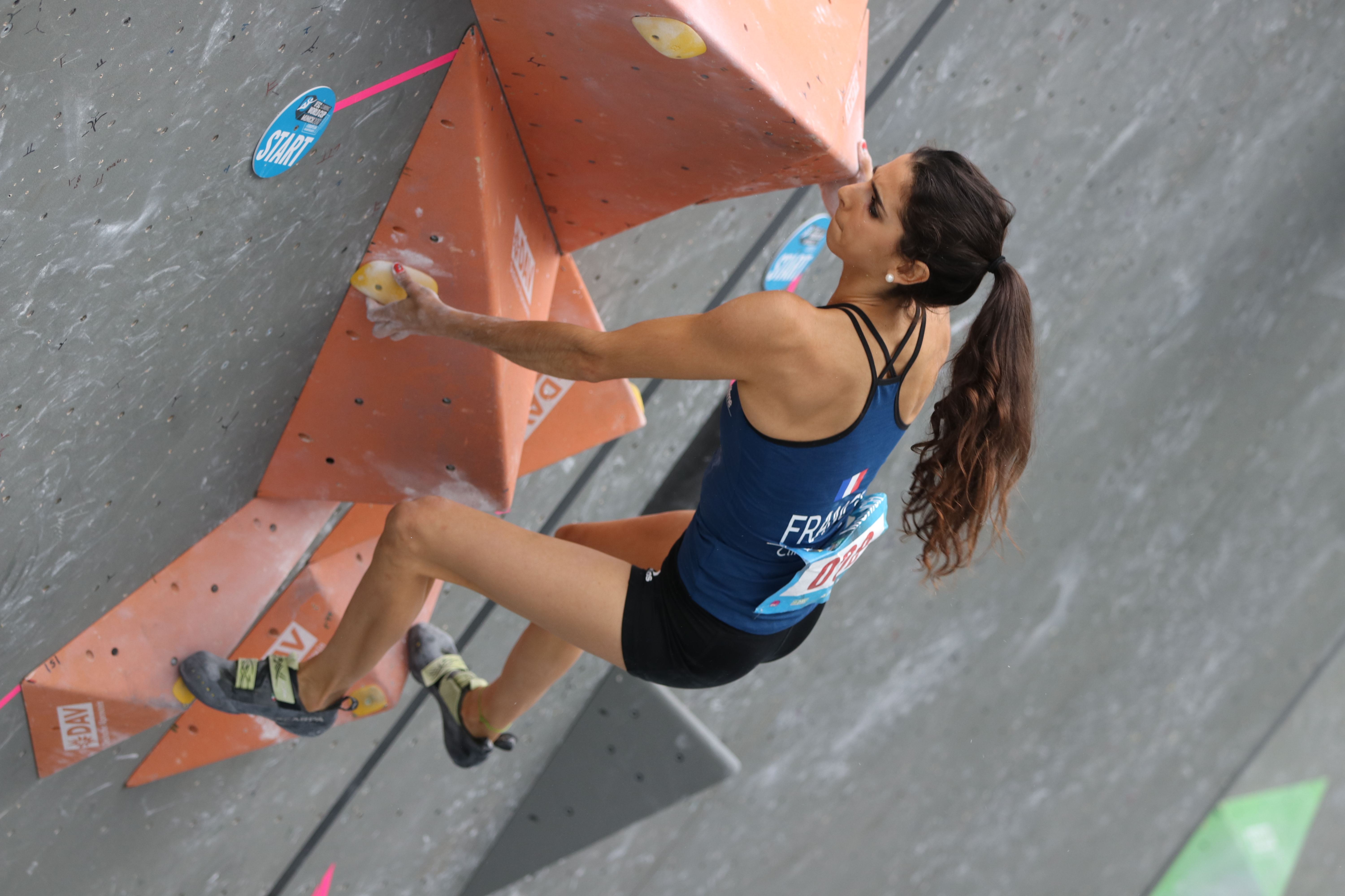 Fanny Gibert, FRA, at the Boulder Worldcup 2017 in Munich, Germany.